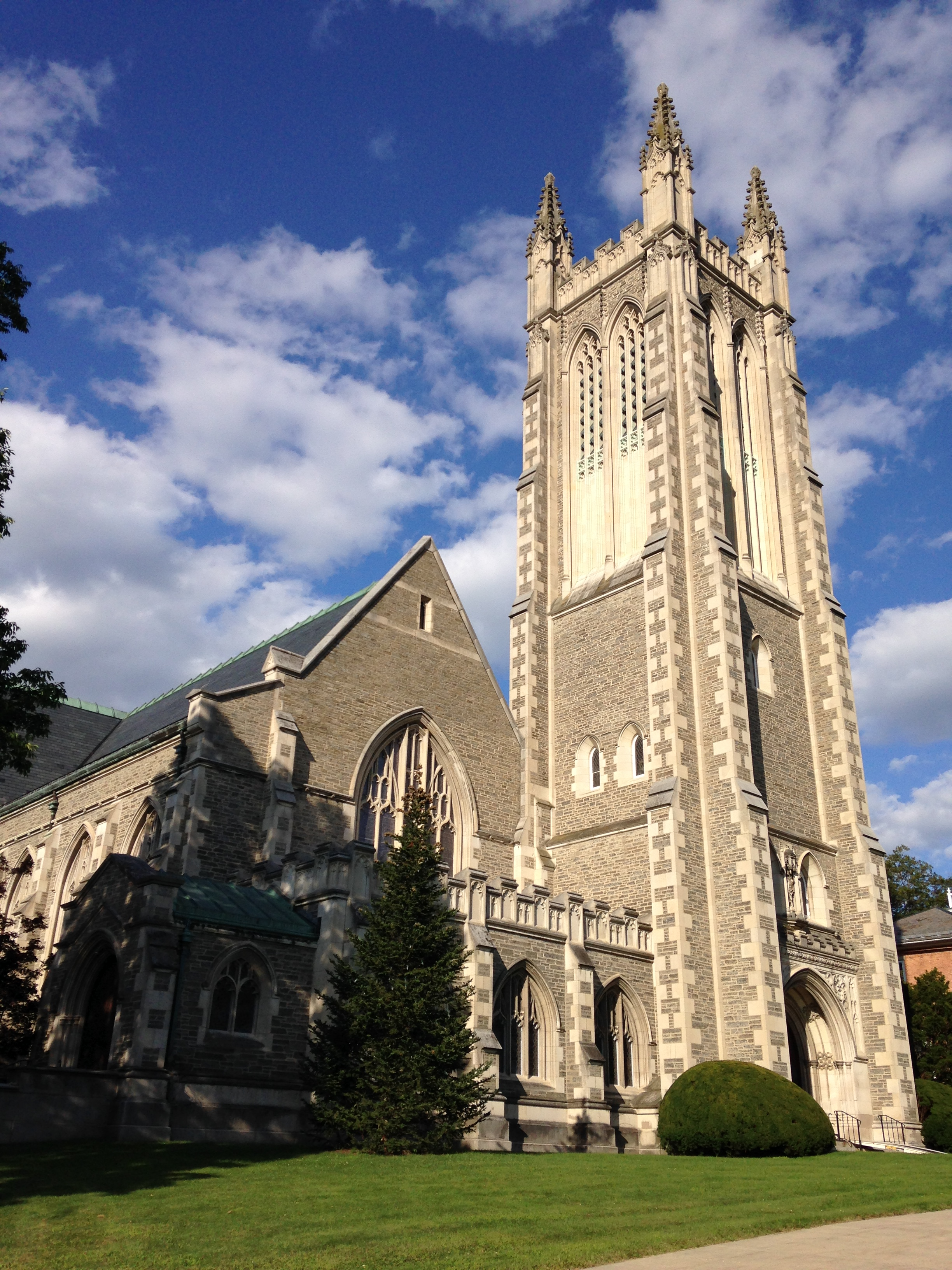 Thompson Memorial Chapel, Williams College, Williamstown, Massachusetts, United States. Architect: Allen & Collens